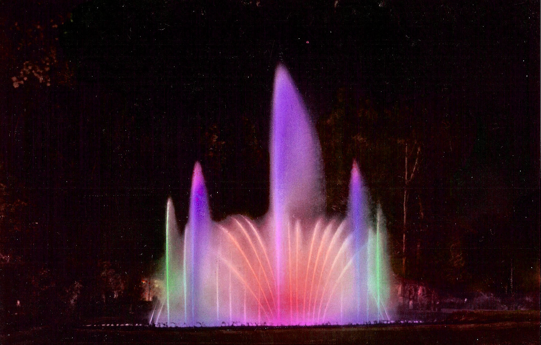 Torino, Italy (Valentino Park): Light fountain with different tiers of cascading water. Guido Chiarelli's lighting project for the celebrations of Italia61